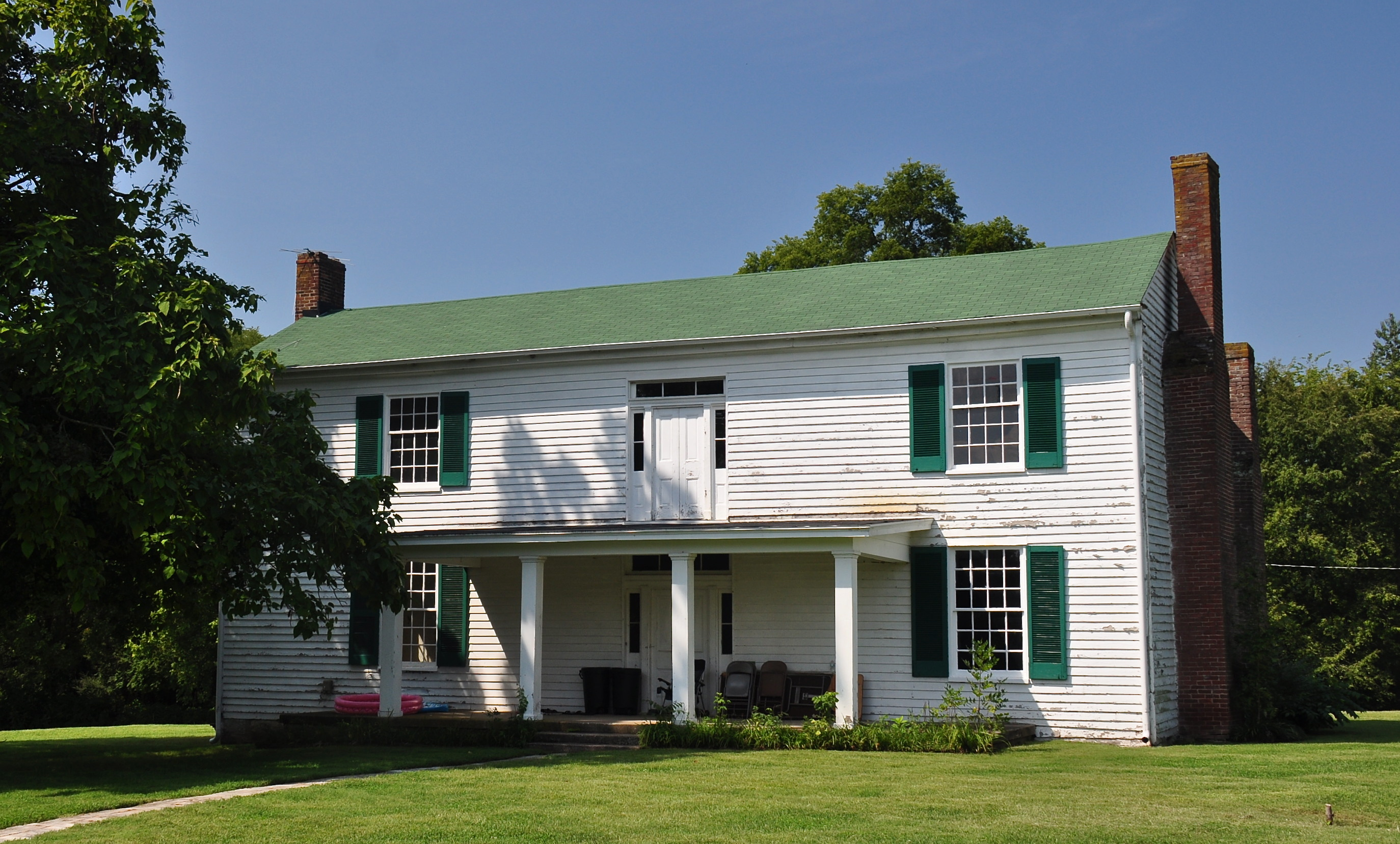 Daniel McMahan House, Spencer Creek Rd., 0.5 miles (0.80 km) west of Franklin Rd. Franklin